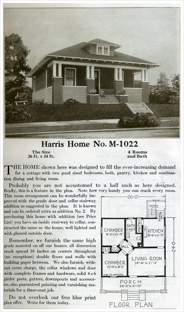 House plan for kit home from catalog published by Harris Homes/Harris Brothers, Chicago, Illinois, in 1920. I believe this to be in the public domain because it was published in the United States before 1920.